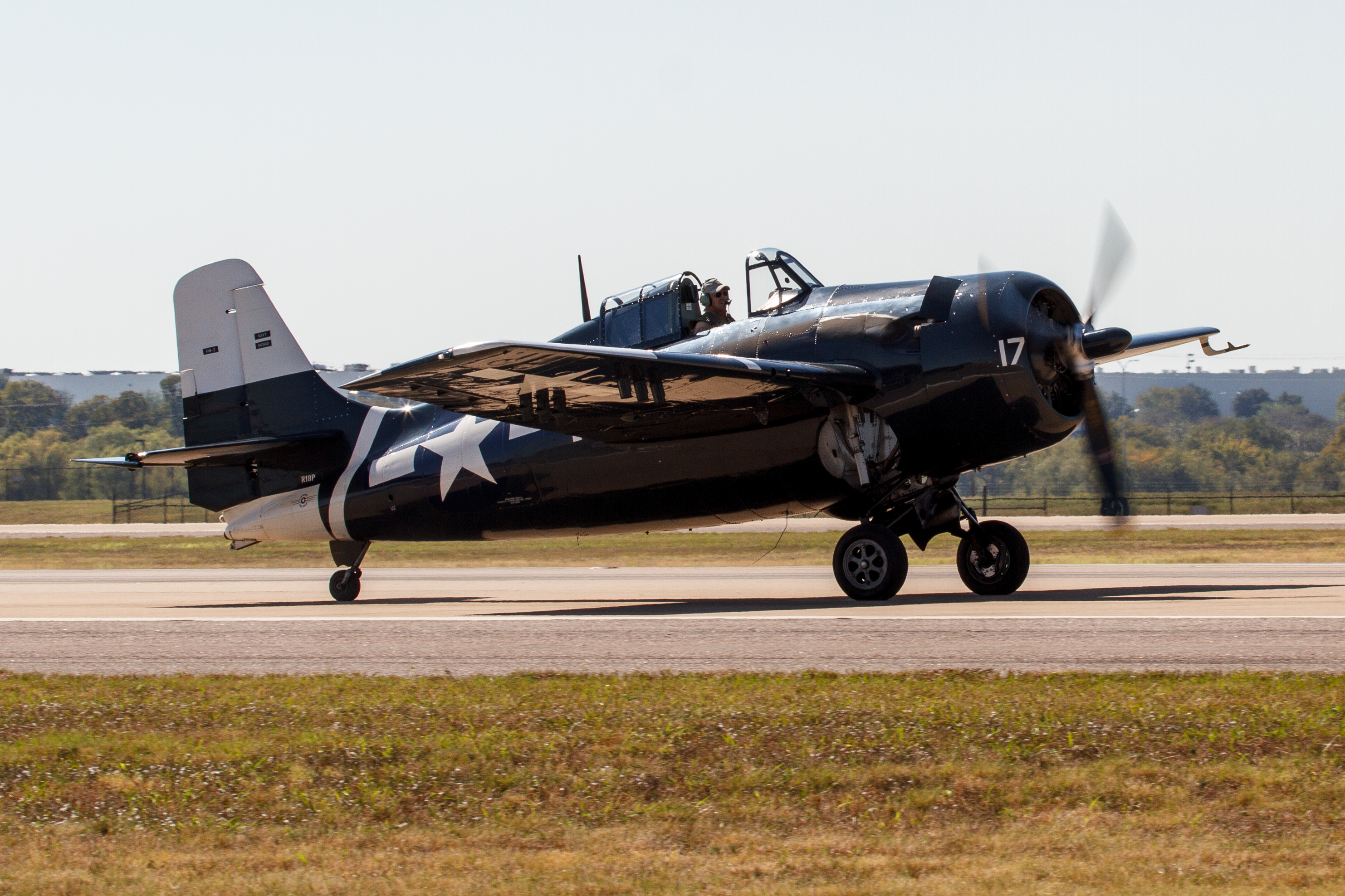 An F4F Wildcat at Alliance Air Show in 2014.